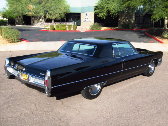 This is a picture of a vehicle (name of it is on the file name).